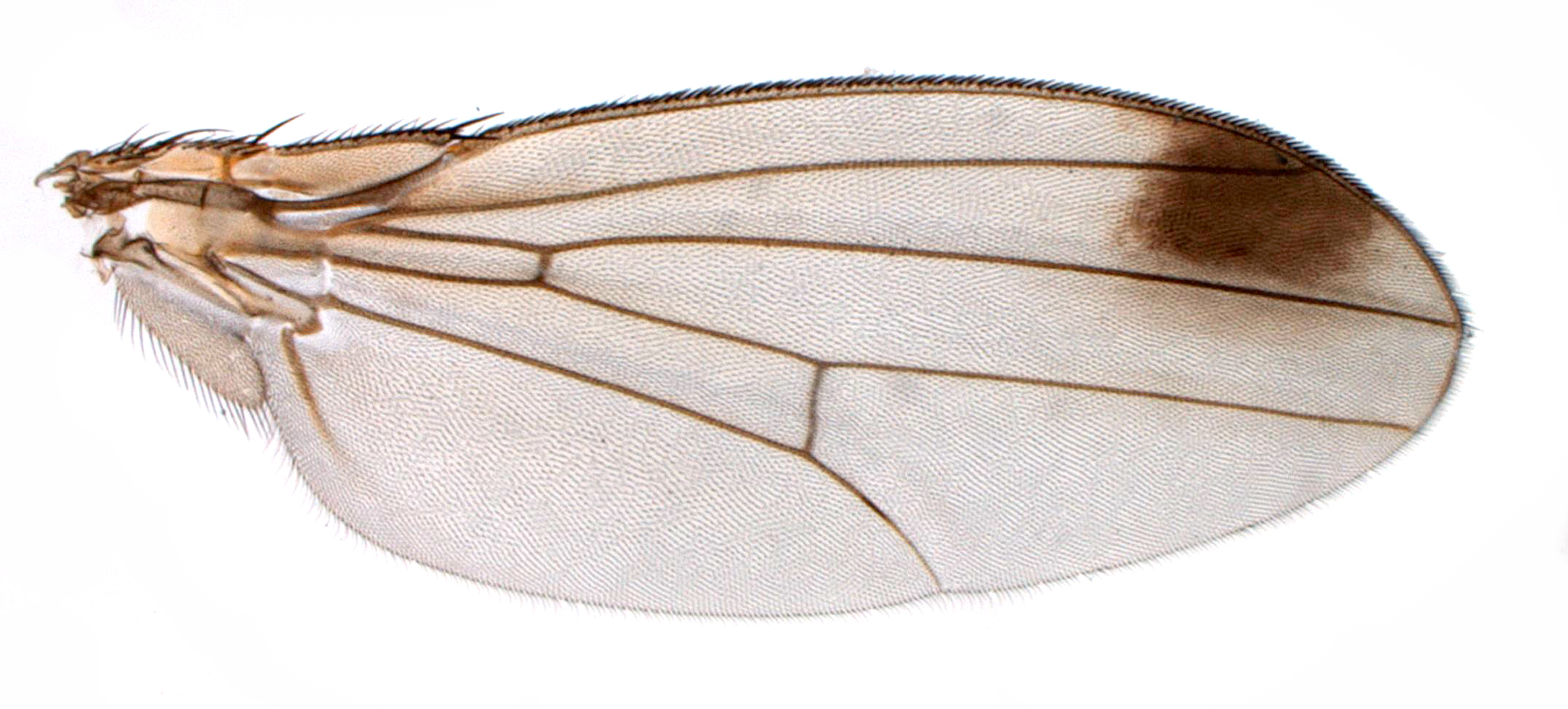 wing male, Drosophila suzukii